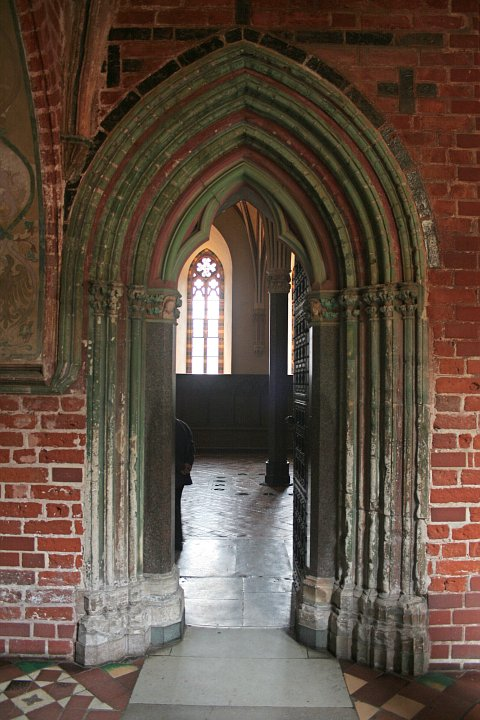 Malbork, High Castle, entrance to the Chapter House